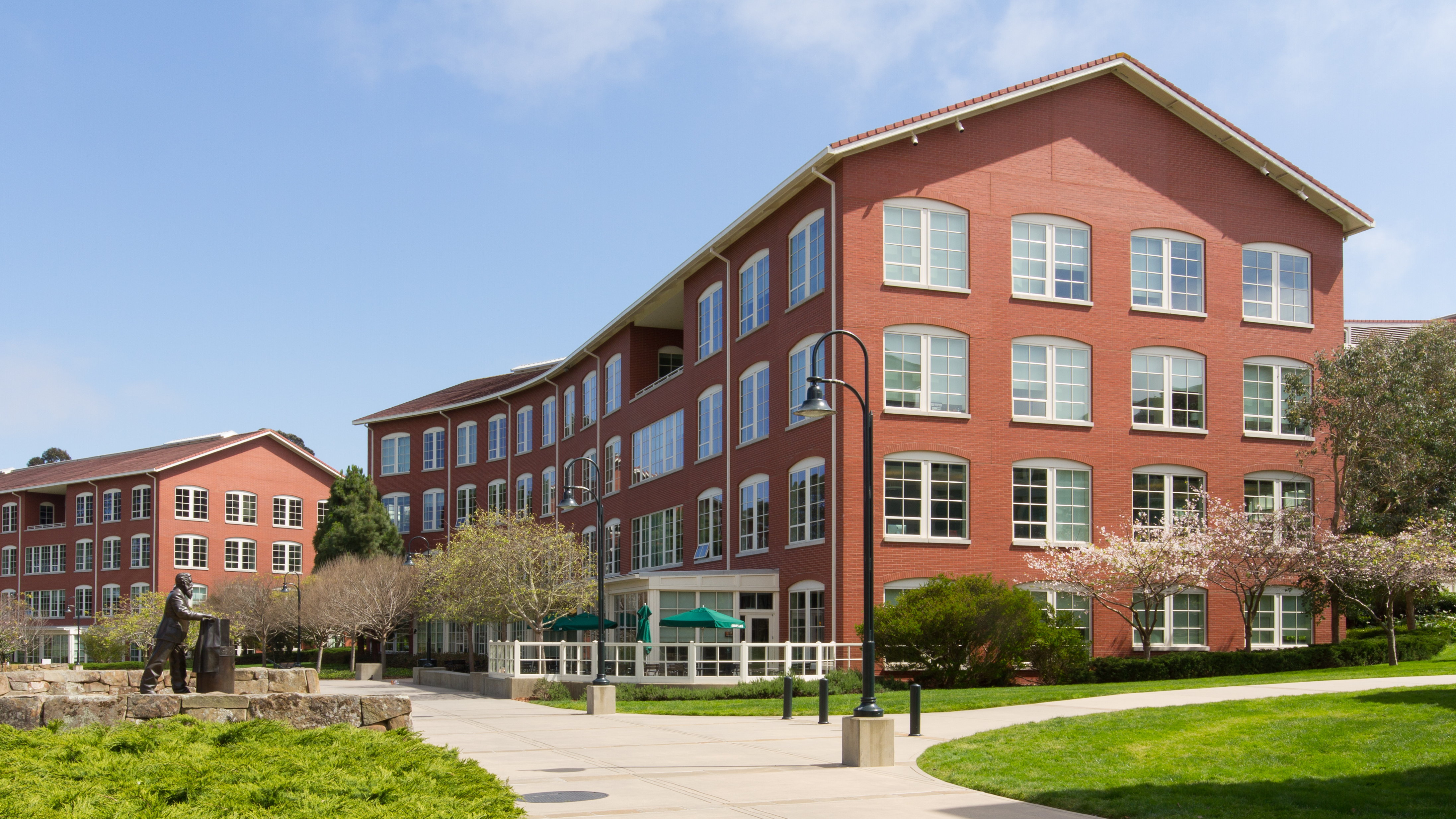 Letterman Digital Arts Center, Building C and D in the Presidio of San Francisco